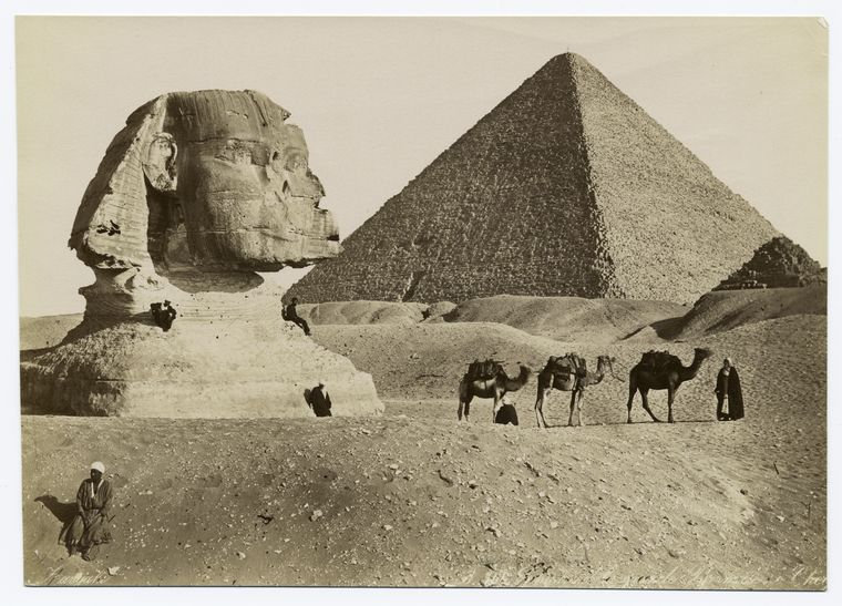 Digital ID: 88428. Zangaki -- Photographer. 1860s-1920s Notes: Title on photograph is very difficult to read Source: [Photographs and prints of Egypt and Syria.] (more info) Repository: The New York Public Library. Photography Collection, Miriam and Ira D. Wallach Division of Art, Prints and Photographs. See more information about this image and others at NYPL Digital Gallery. Persistent URL: Rights Info: No known copyright restrictions; may be subject to third party rights (for more information, click here)